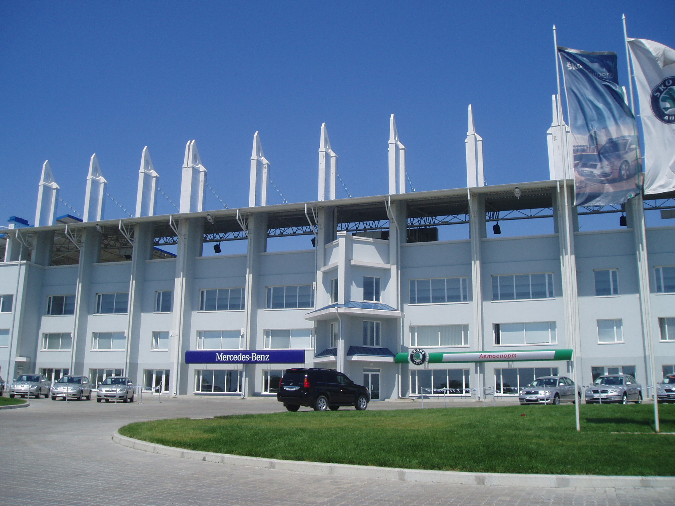 This is the street front of the Sheriff stadion complex (from the street leading in to Tiraspol from Chisinau, I think) in Tiraspol, Transnistria, Moldova. Unfortunately we had very little time in Tiraspol and didn't take the time to check out the stadion, so this is just the small part where the car dealers are.